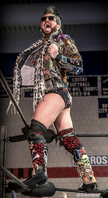 Wrestler Vinny Marseglia at a Northeast Wrestling event in Waterbury CT in March of 2017